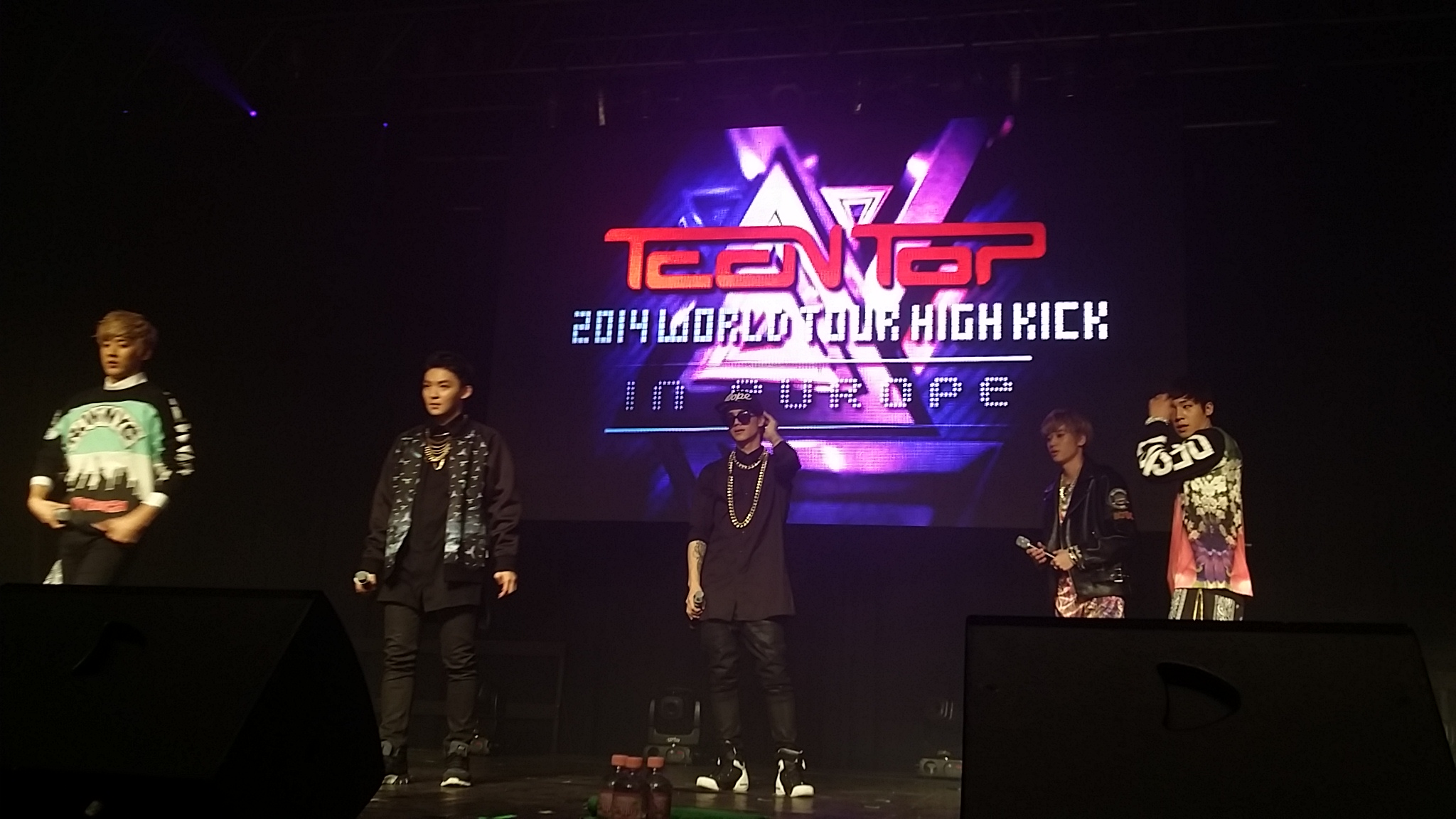 Teen Top concert, Budapest